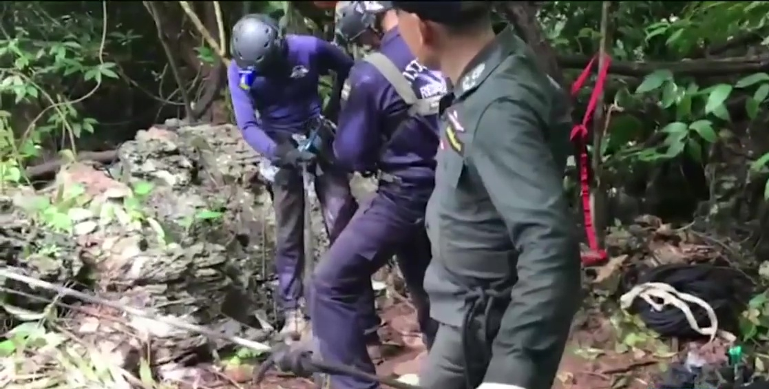 Police Aerial Reinforcement Unit personnel explore a cave opening at Doi Pha Mi in search of an entrance to the Tham Luang cave system on 30 June 2018